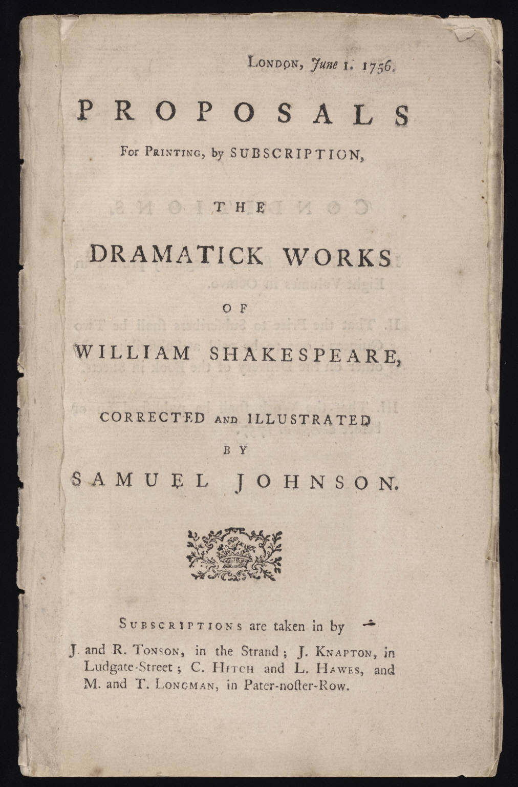 "Proposal for Printing by Subscription the Dramatick Works of William Shakespeare, Corrected and Illustrated by Samuel Johnson," printed at London, 1 June 1756. Title page of the prospectus. Image courtesy of the General Collection, Early modern books and manuscripts (1601-1800), Beinecke Rare Book & Manuscript Library, Yale University, New Haven, Connecticut.